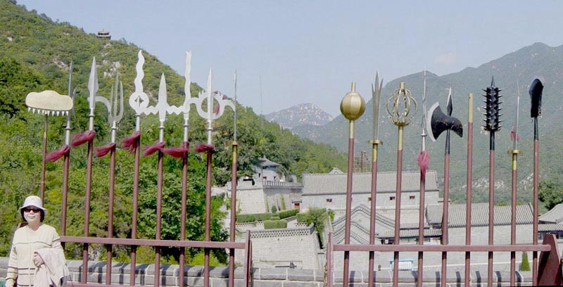 Reproduction Weapons at the Great Wall These are all long handled weapons used to repel attackers from the ground and to defend the upper works. Composite image from two pictures taken late September 2002 by Leonard G.